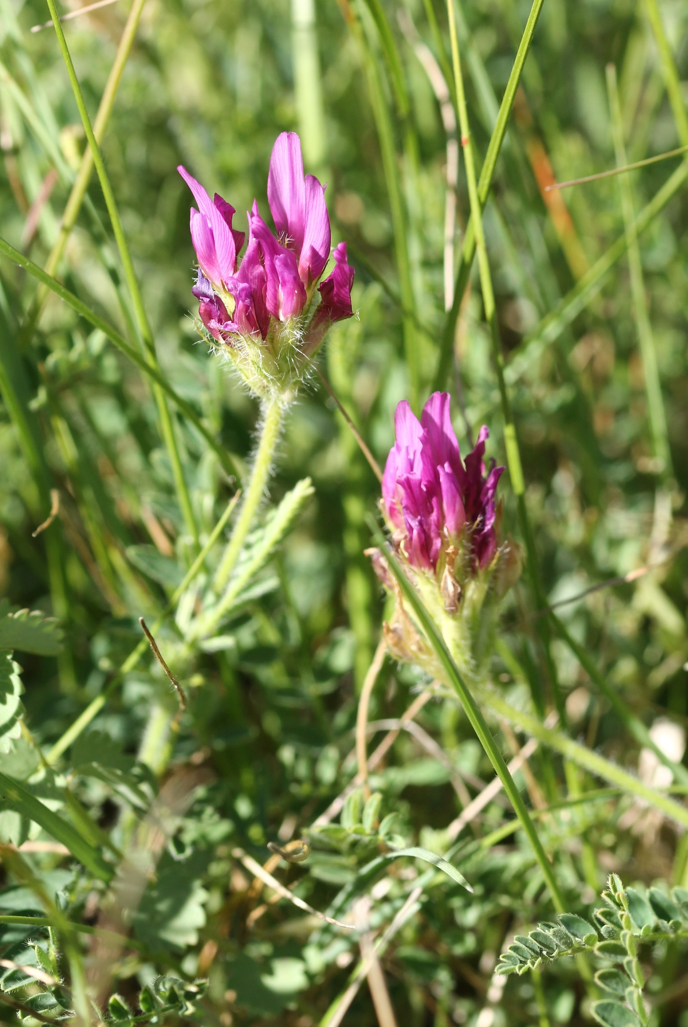 Astragalus hypoglottis L.